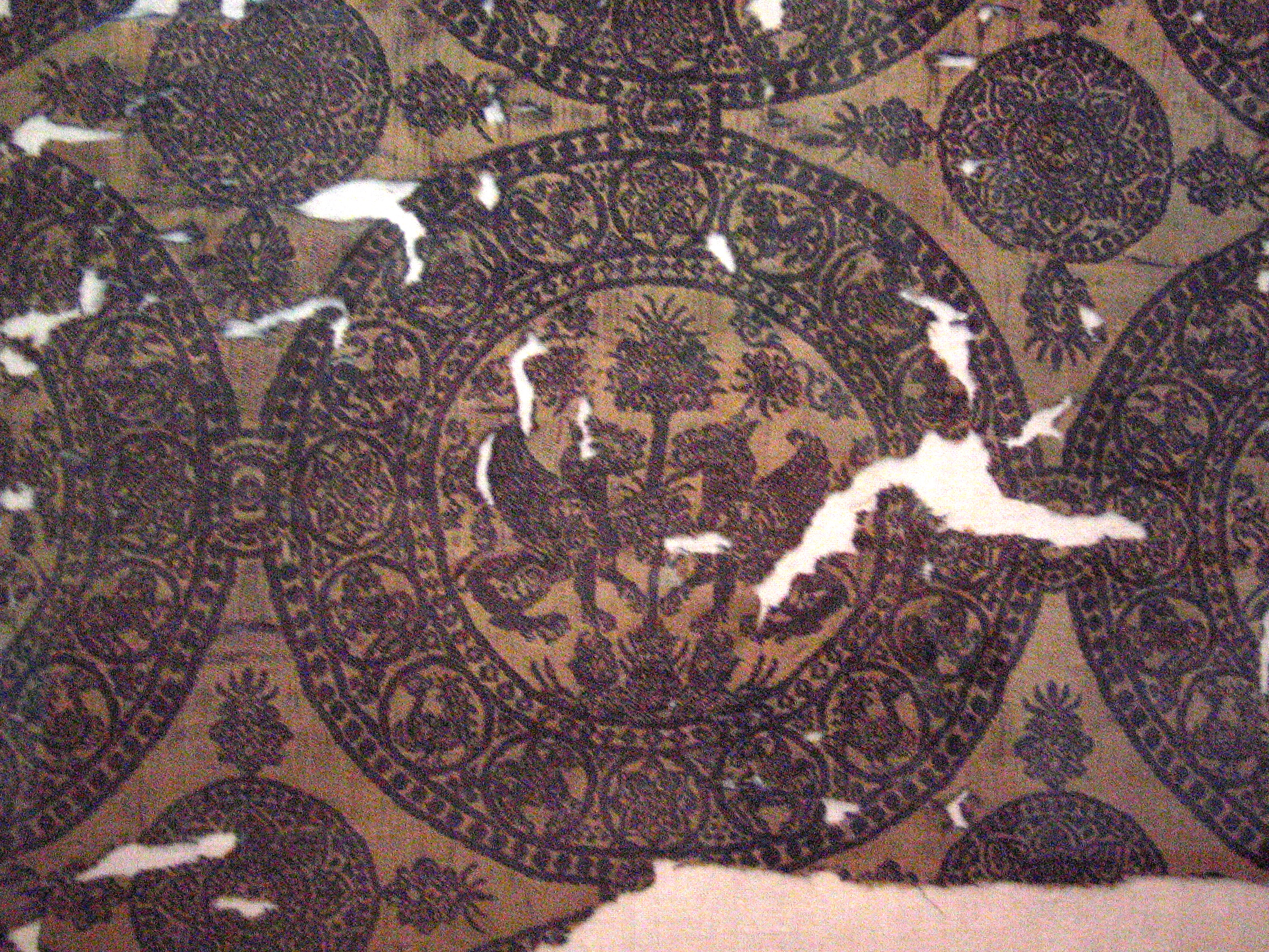 coming from Rayy (Iran)